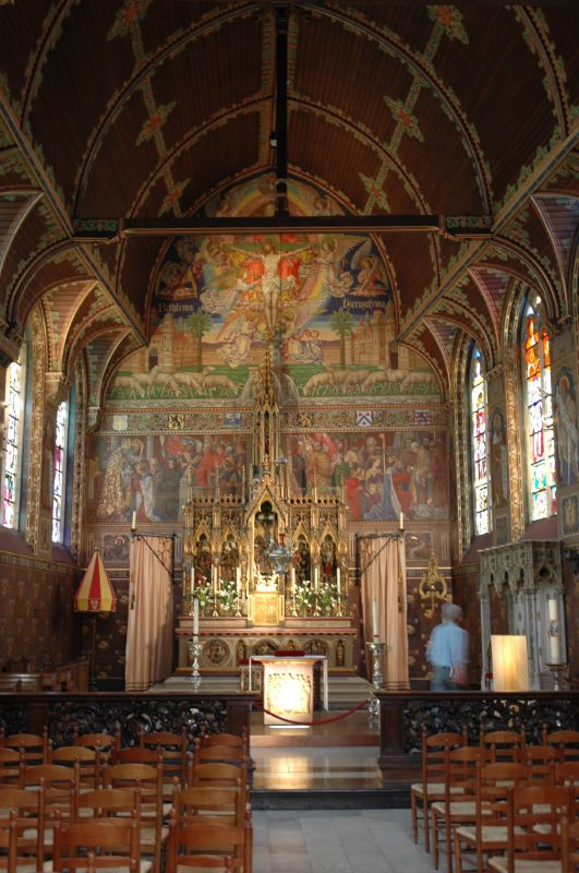 Man altar of the Basilica of the Holy Blood, Bruges, Belgium